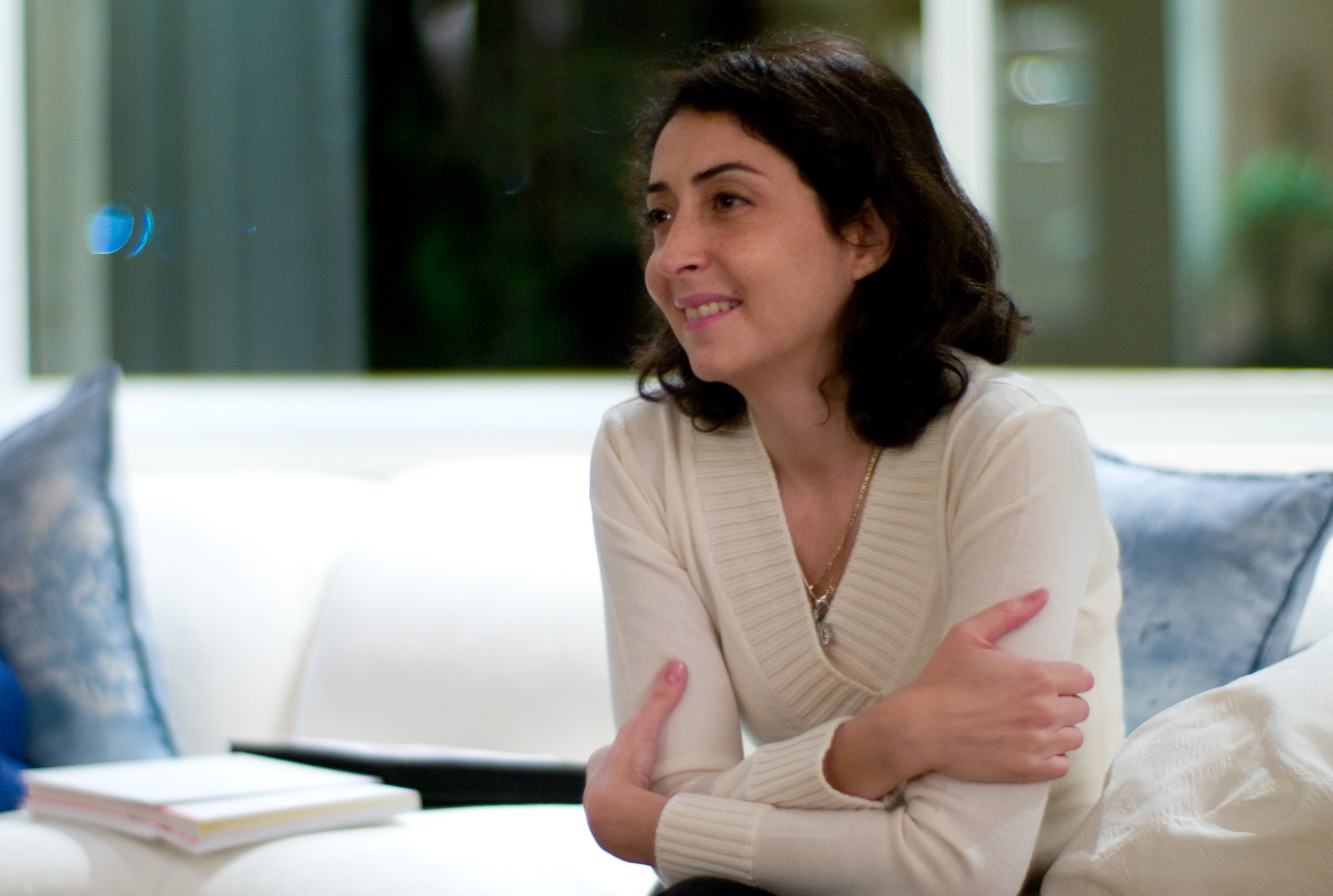 Her Royal Highness Princess Rym Al Ali